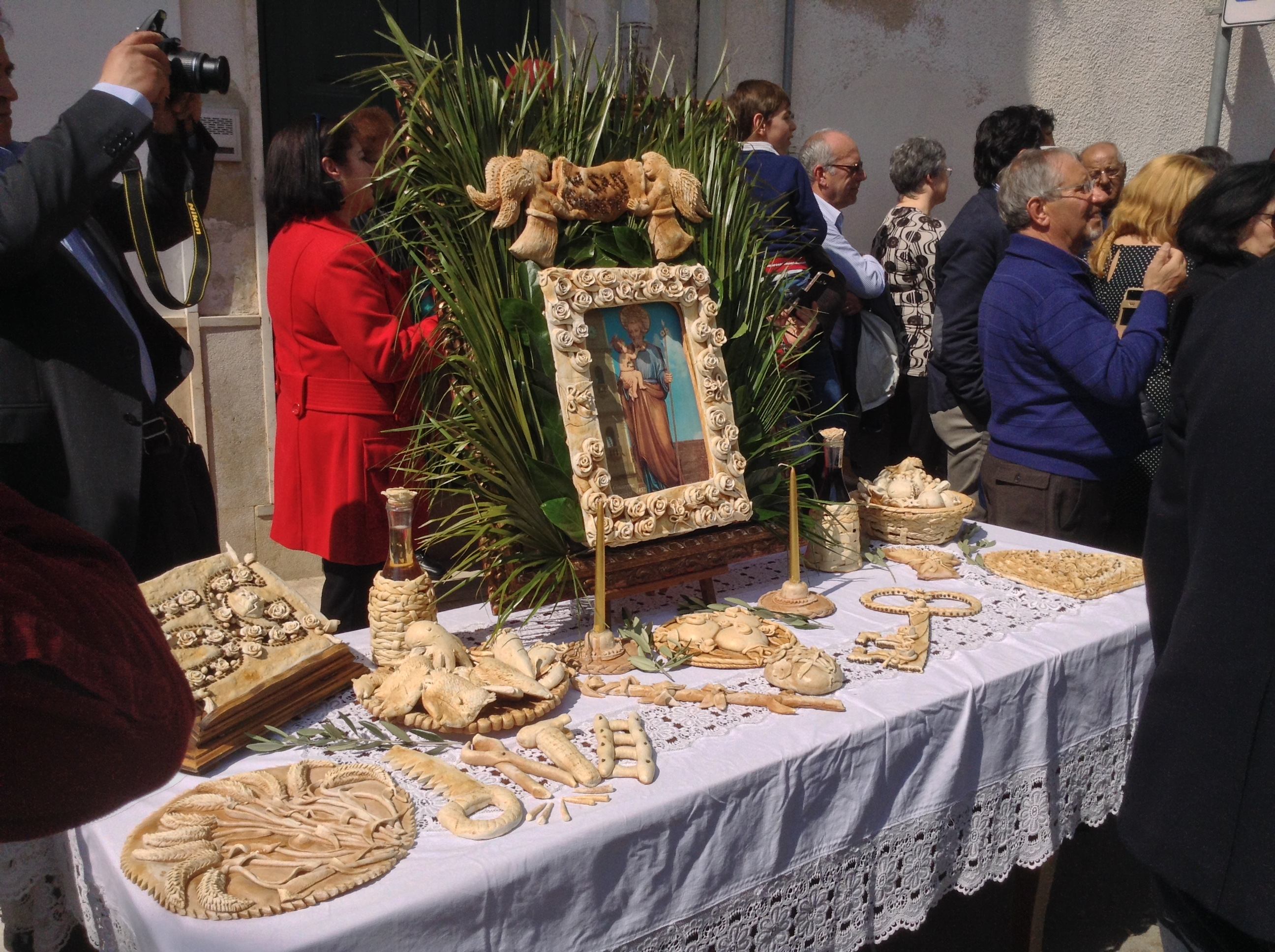 Mattre (Table of poor people)